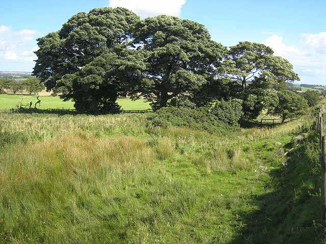 Roman ditch near the Errington Arms This ditch was constructed by the Romans immediately to the north of Hadrian's Wall Hadrian's_Wall as part of the defensive structure. This well-preserved section lies immediately to the north of the post-Roman Military Road which here follows the line of the Wall itself.